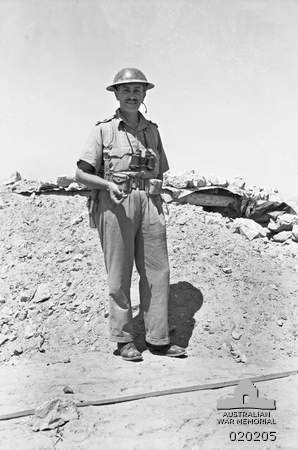 TOBRUK, LIBYA. 1941-08. THE COMMANDING OFFICER OF THE 2/ 17TH INFANTRY BATTALION, LIEUTENANT COLONEL J.W. CRAWFORD, E.D., OUTSIDE HIS HQ IN THE EL ADEM SECTOR.